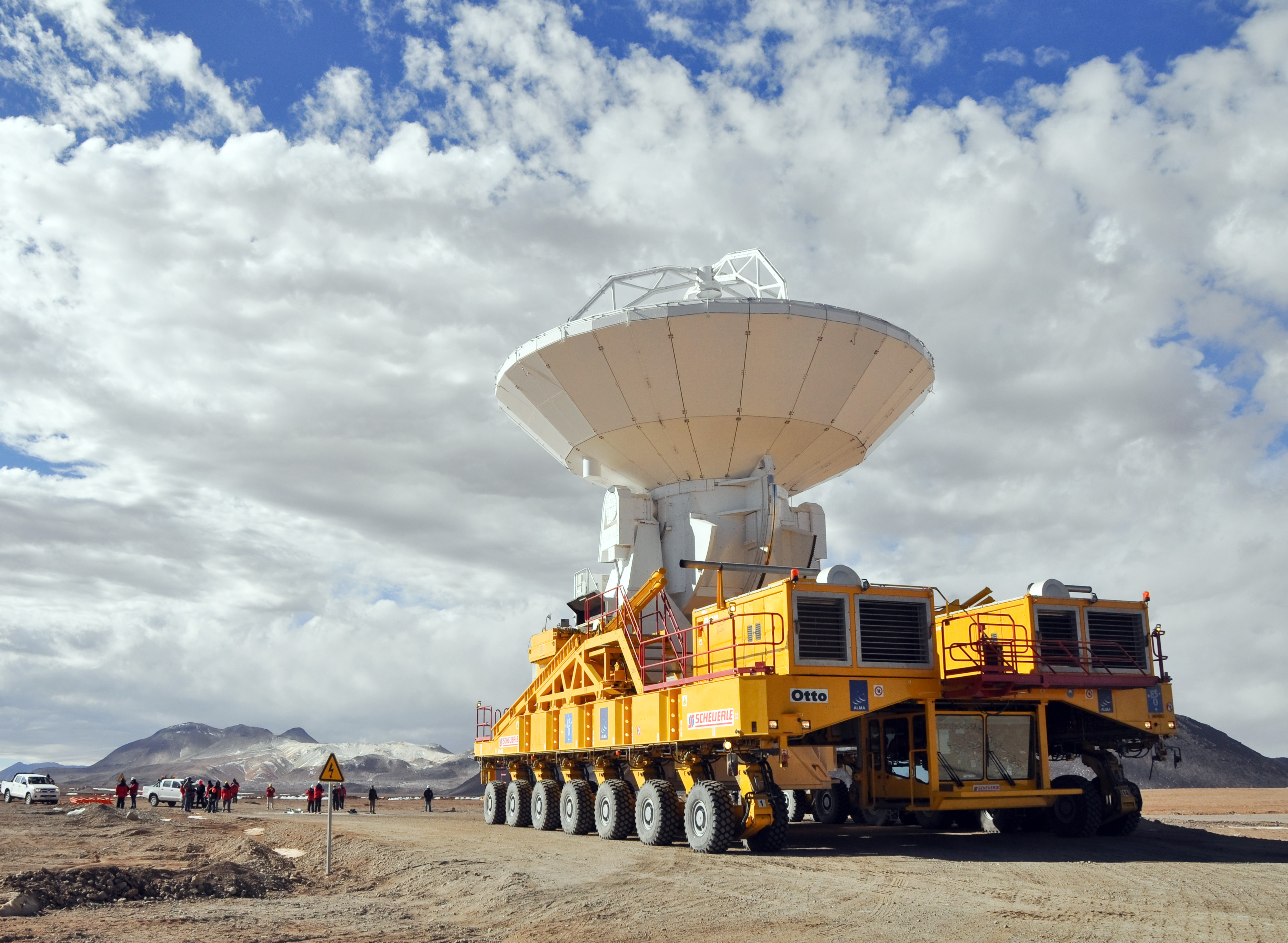 An ALMA antenna en route from the Operations Support Facility to the plateau of Chajnantor for the first time. The ALMA transporter vehicle carefully carries the state-of-the-art antenna, with a diameter of 12 metres and a weight of about 100 tons, on the 28 km journey to the Array Operations Site, which is at an altitude of 5000 m. The antenna is designed to withstand the harsh conditions at the high site, where the extremely dry and rarefied air is ideal for ALMA’s observations of the universe at millimetre- and submillimetre-wavelengths.